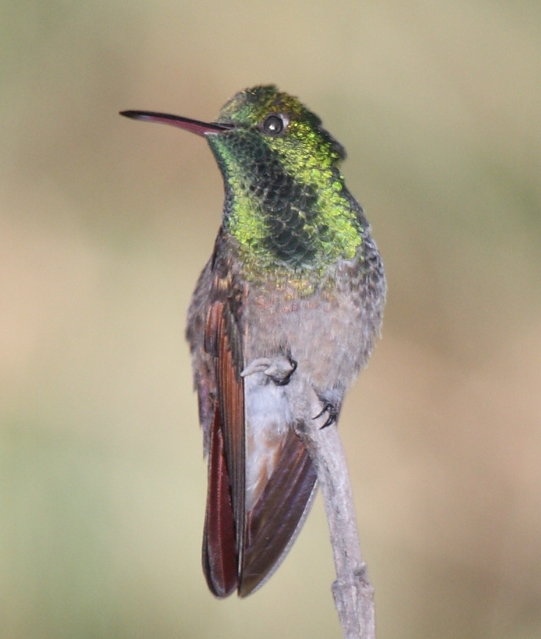 Berylline Hummingbird (Amazilia beryllina), in Mexico.